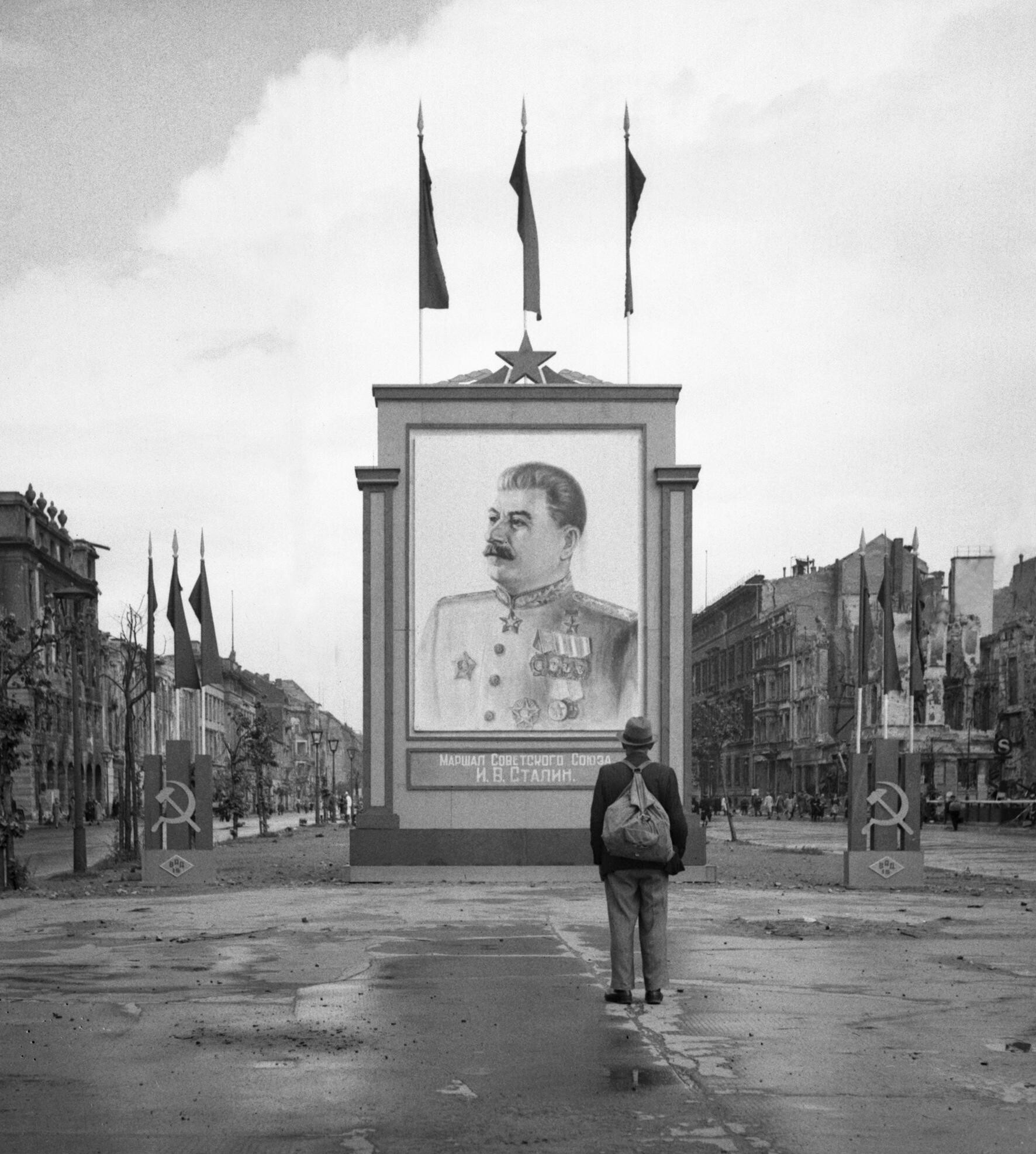 A German civilian looks at a vast painting of Stalin on the Unter-den-Linden in Berlin.